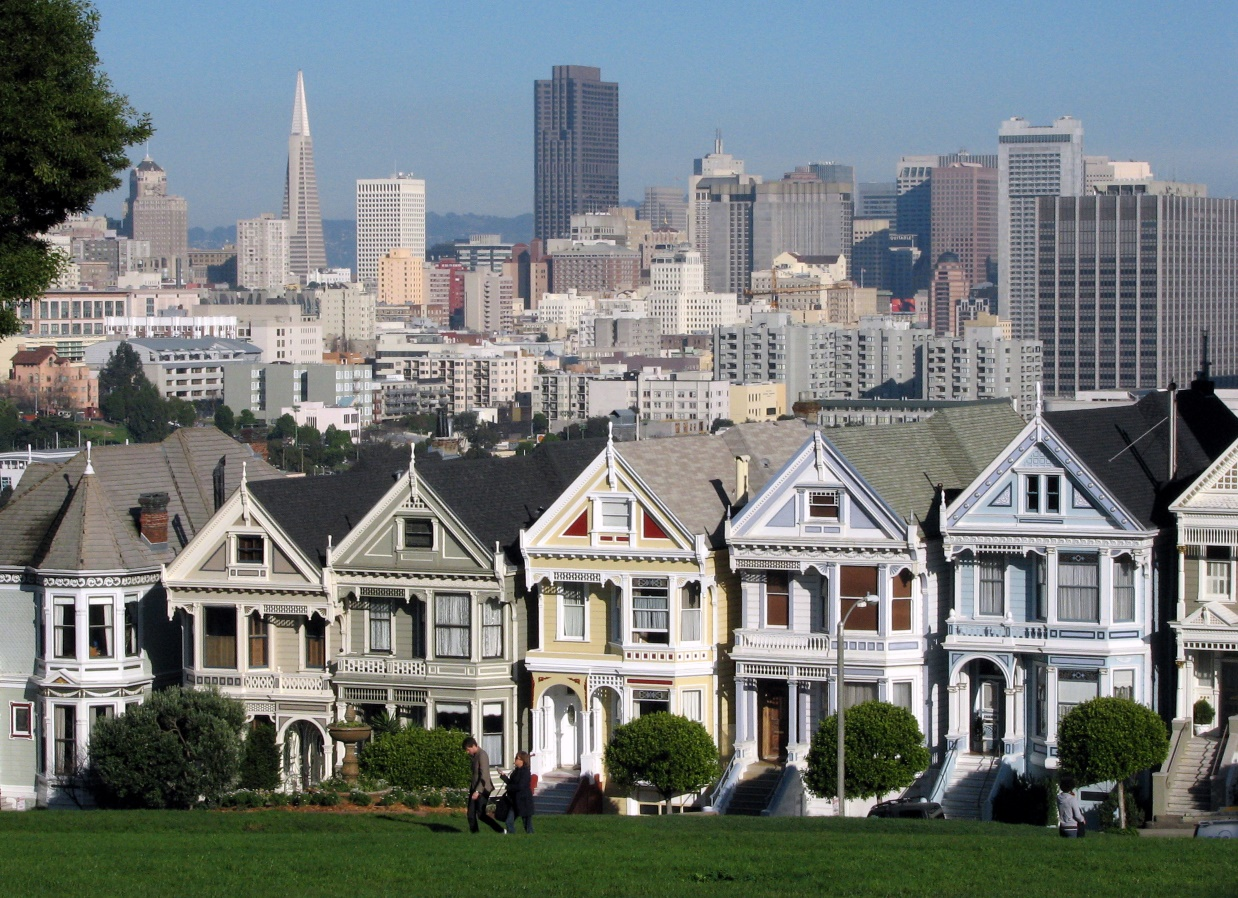 In the distant background, the Transamerica Pyramid and the Bank of America building. The distant blue ridgeline is that of the Oakland-Berkeley Hills across San Francisco Bay.